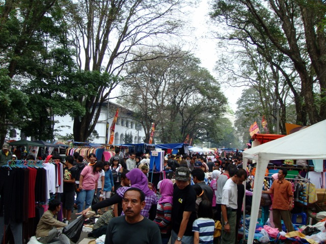 Open air bazaar that is regularly held around Gasibu Square in Bandung every Sunday morning